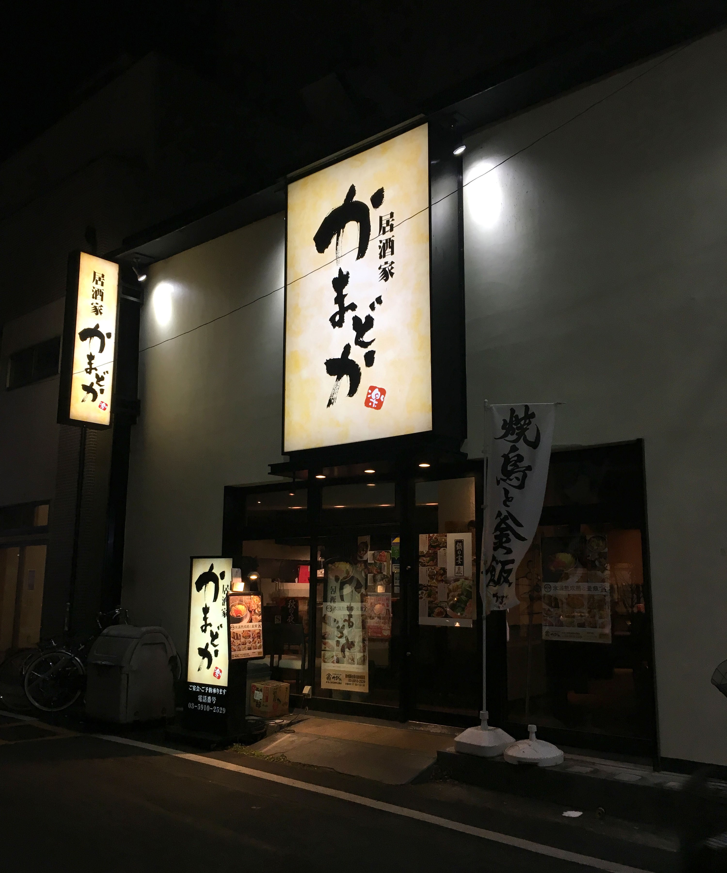 Kamadoka (Japanese bar chain) Shakujiikoen branch (Tokyo, Japan)